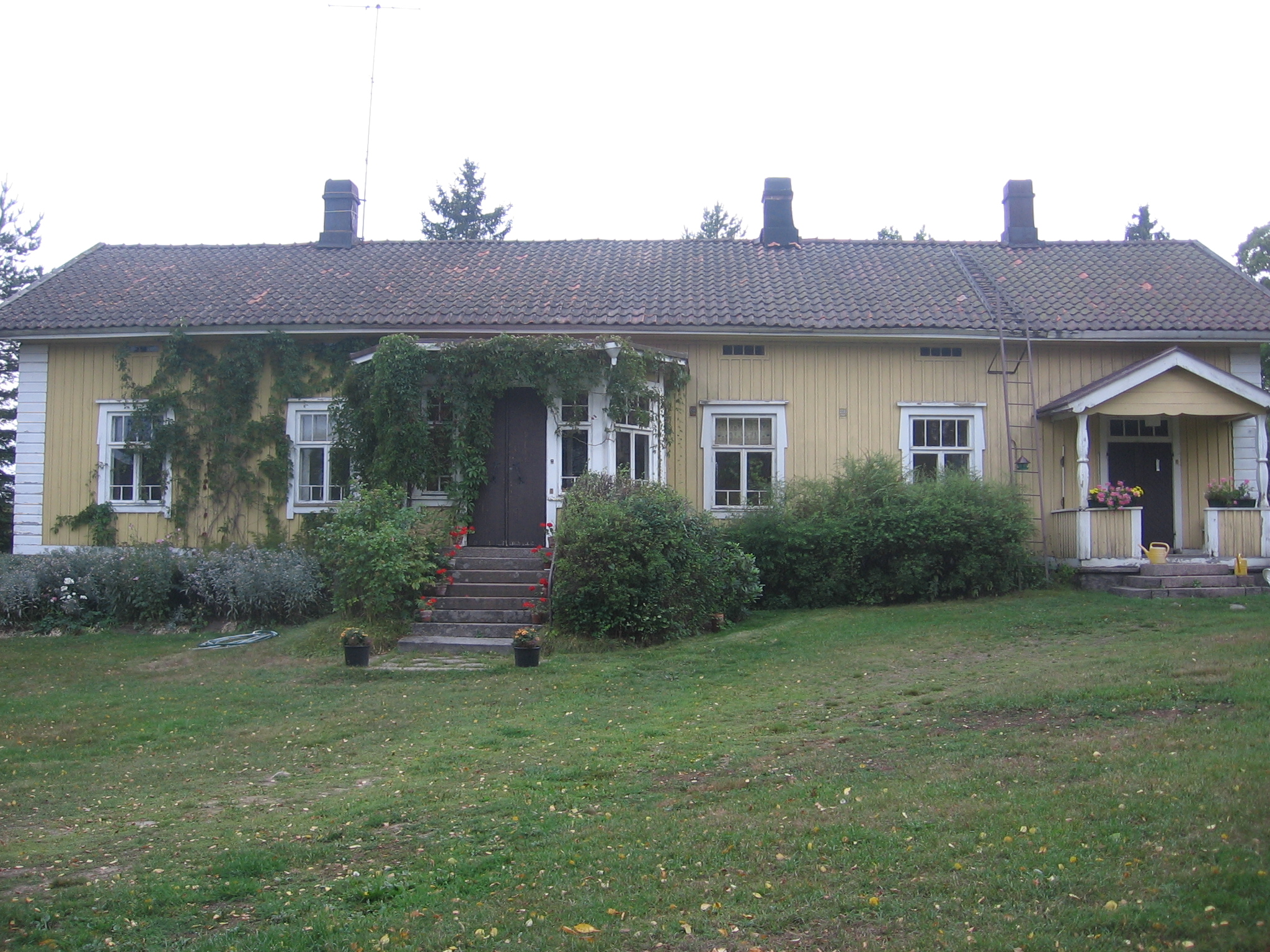 The new main building of Söderskog.